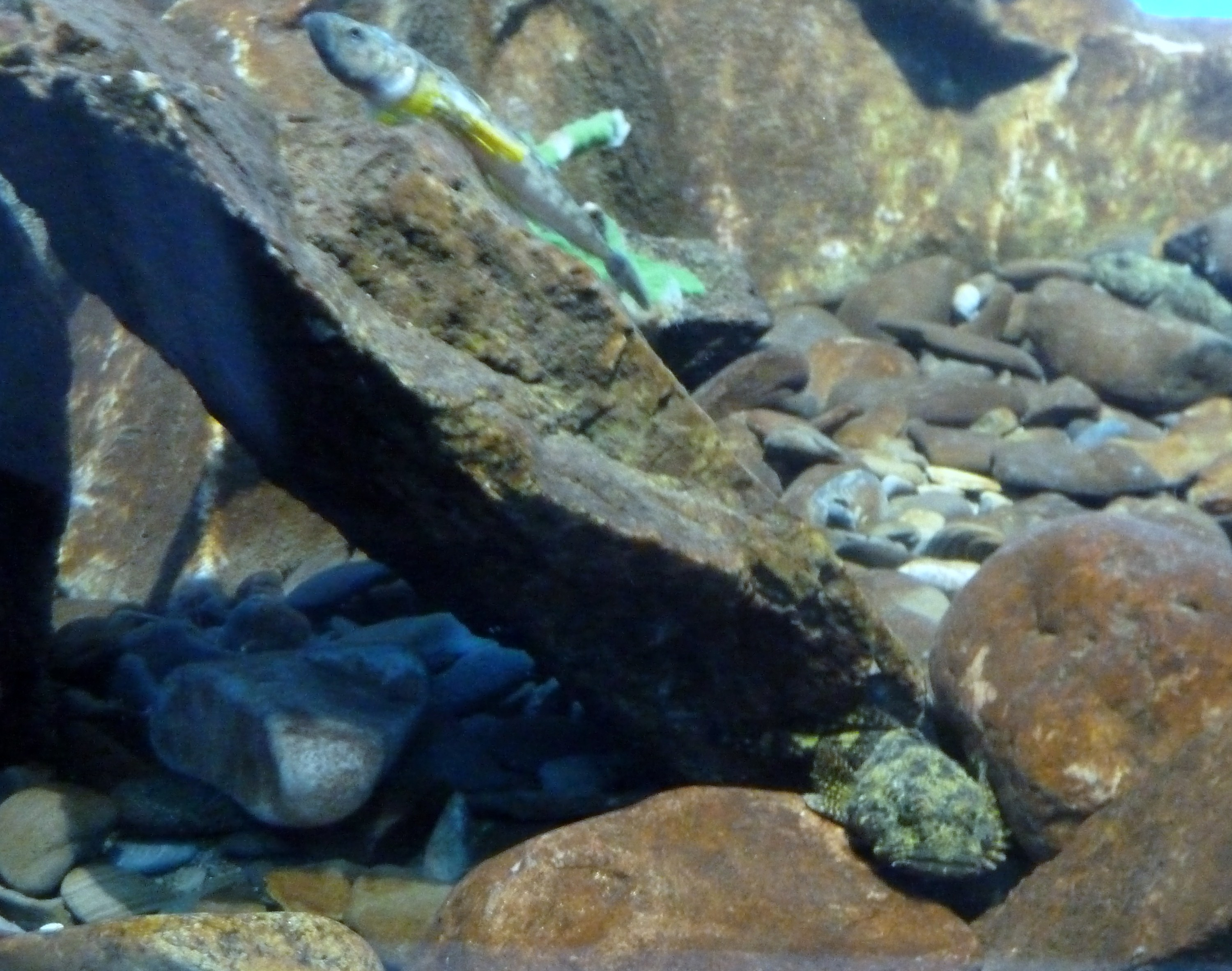 Sculpins (Cottocomephorus grewingkii above, unidentified species [Batrachocottus?] below) at the Baikal Limnological Museum, Listvyanka, Irkutsk Oblast, Russia